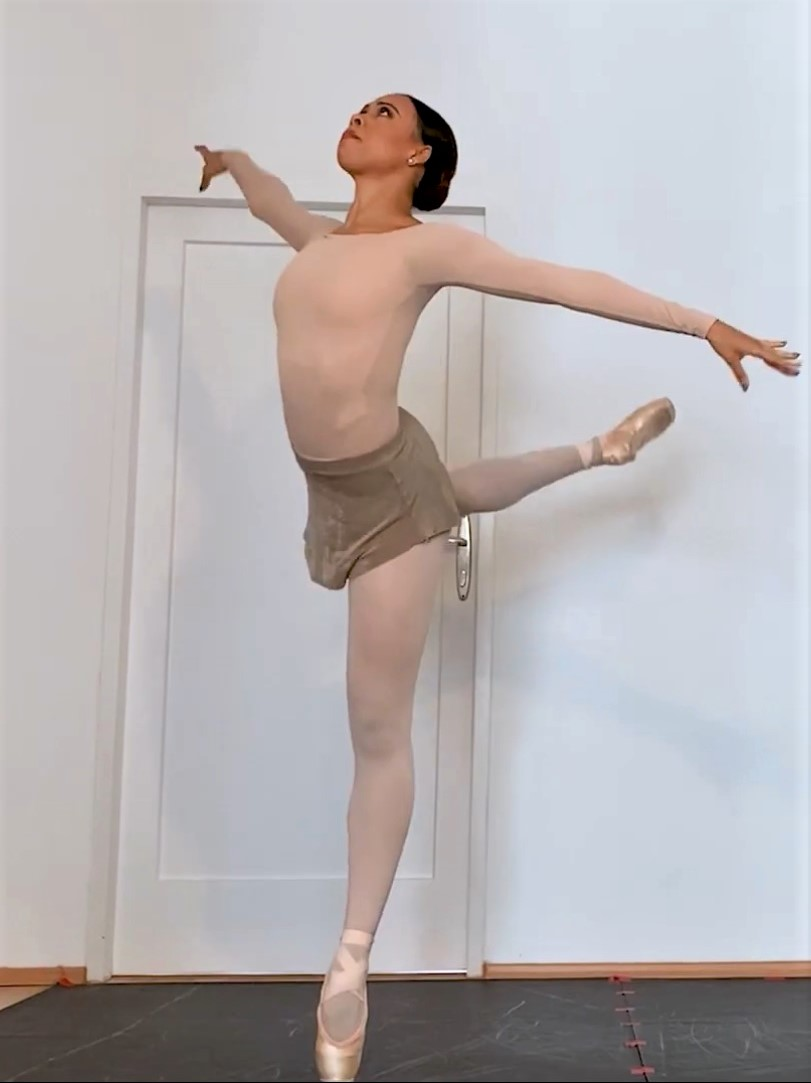 Swans For Relief - Nikisha Fogo, Vienna State Ballet, Austria Donate: 32 premier ballerinas from 22 dance companies in 14 countries perform Le Cygne (The Swan) variation sequentially in support of Swans for Relief. Organized by Misty Copeland and Joseph Phillips, 100% of the funds raised will be distributed to each dancer’s company’s COVID-19 relief fund, or other arts/dance-based relief fund in the event that a company is not set up to receive donations. To donate please visit, Ballet companies are largely dependent on revenue from performances to pay their dancers and fund their operations, but due to the coronavirus pandemic, all performances have been halted. Consequently, many dancers are unable to depend on paychecks and are facing the hardship of paying rent and/or buying food and other necessities. Le Cygne (The Swan) with music by Camille Saint-Saëns, performed by cellist Wade Davis (USA), with choreography by Michel Fokine by kind permission of the Fokine Estate-Archive.